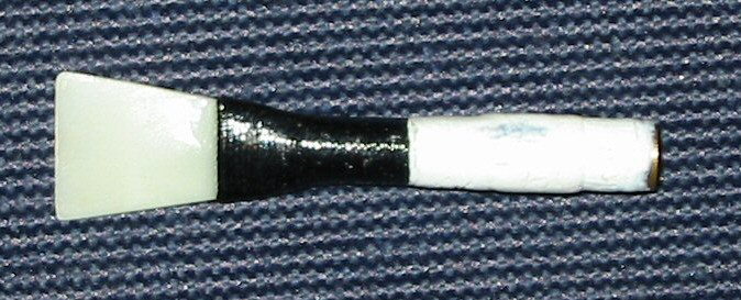 Double reed made of plastic